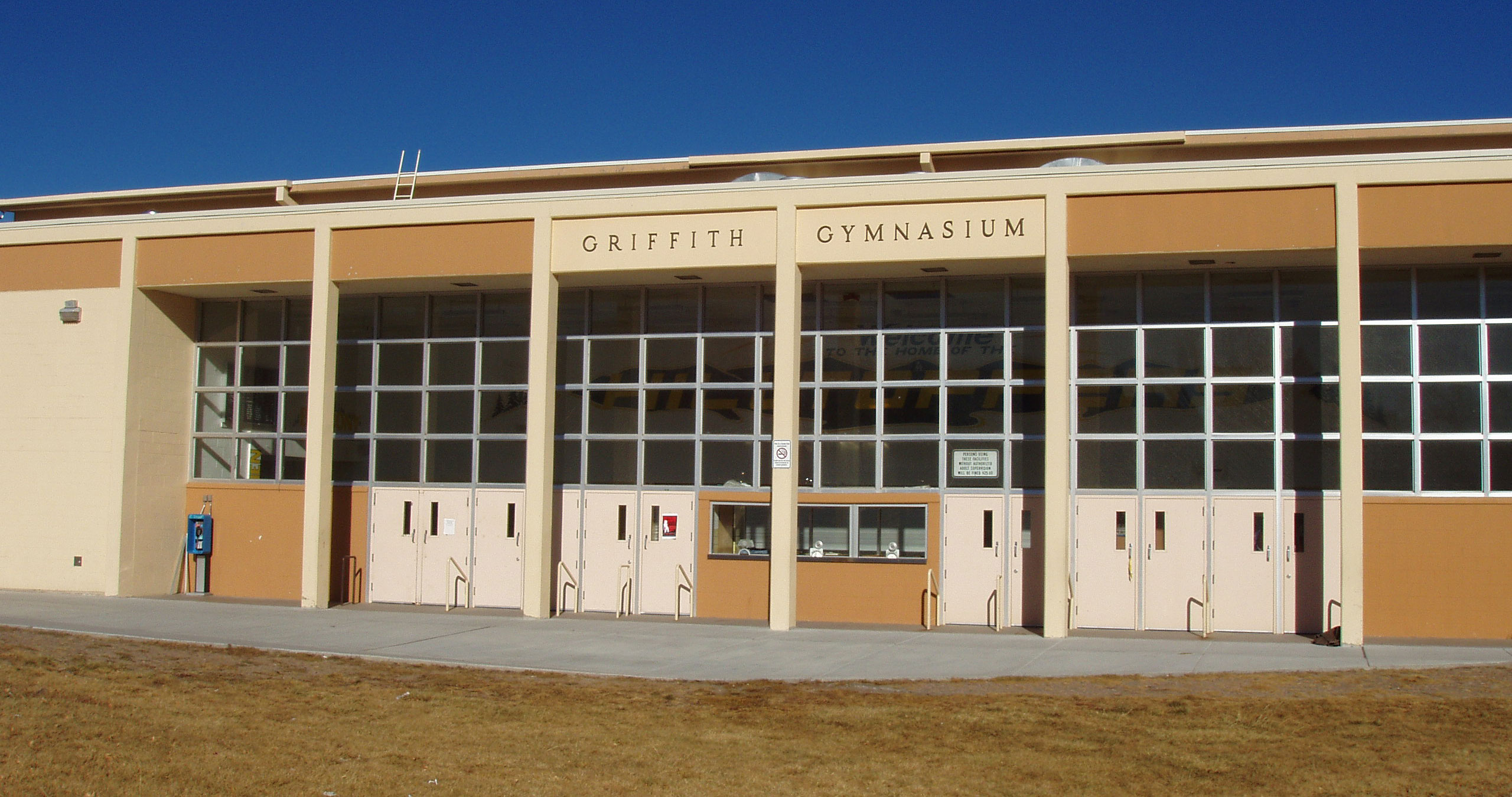 Griffith Gymnasium at Los Alamos High School Category:Los Alamos